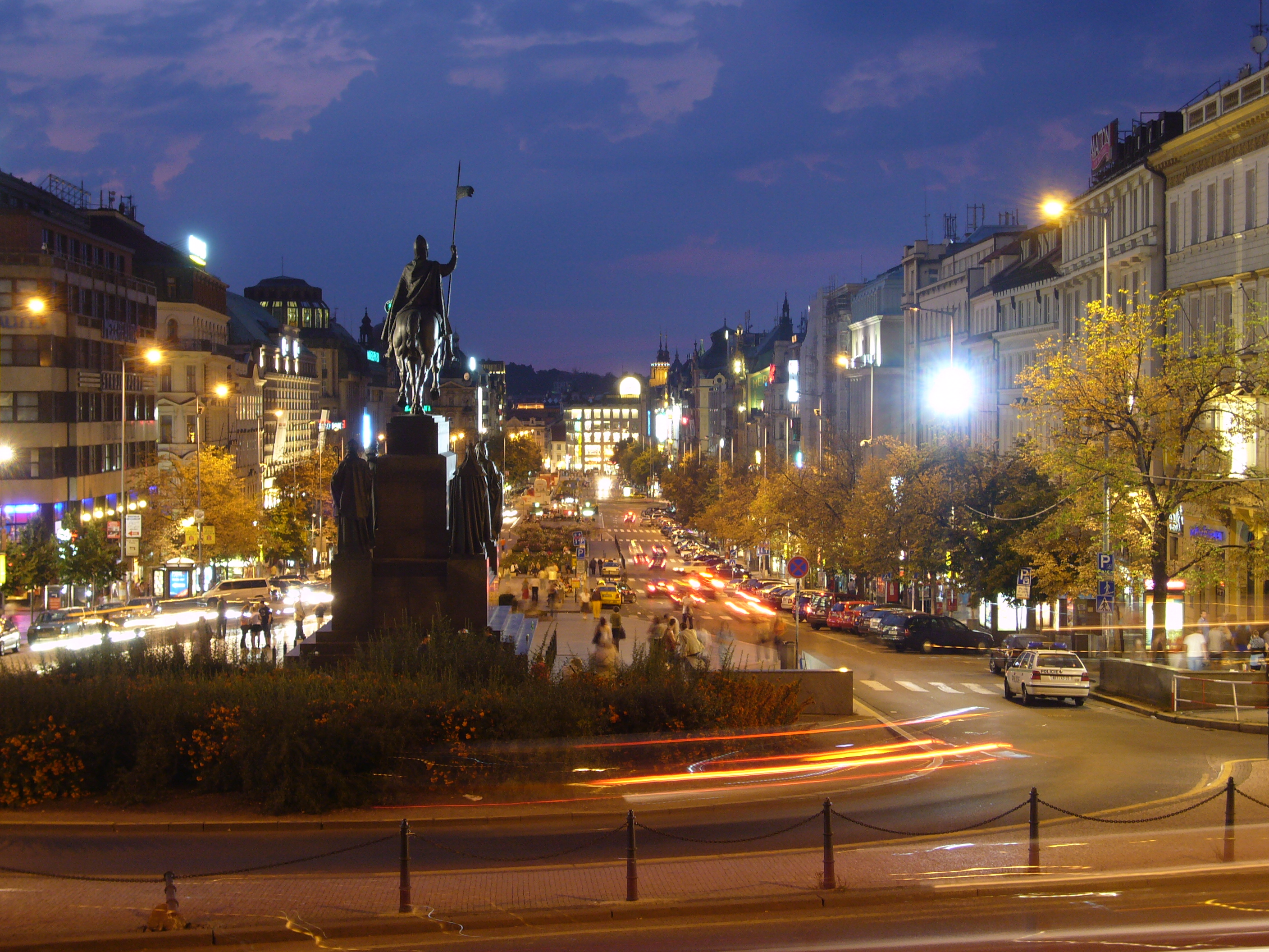 View of Wenceslas Square at night, seen from the side of the National Museum.